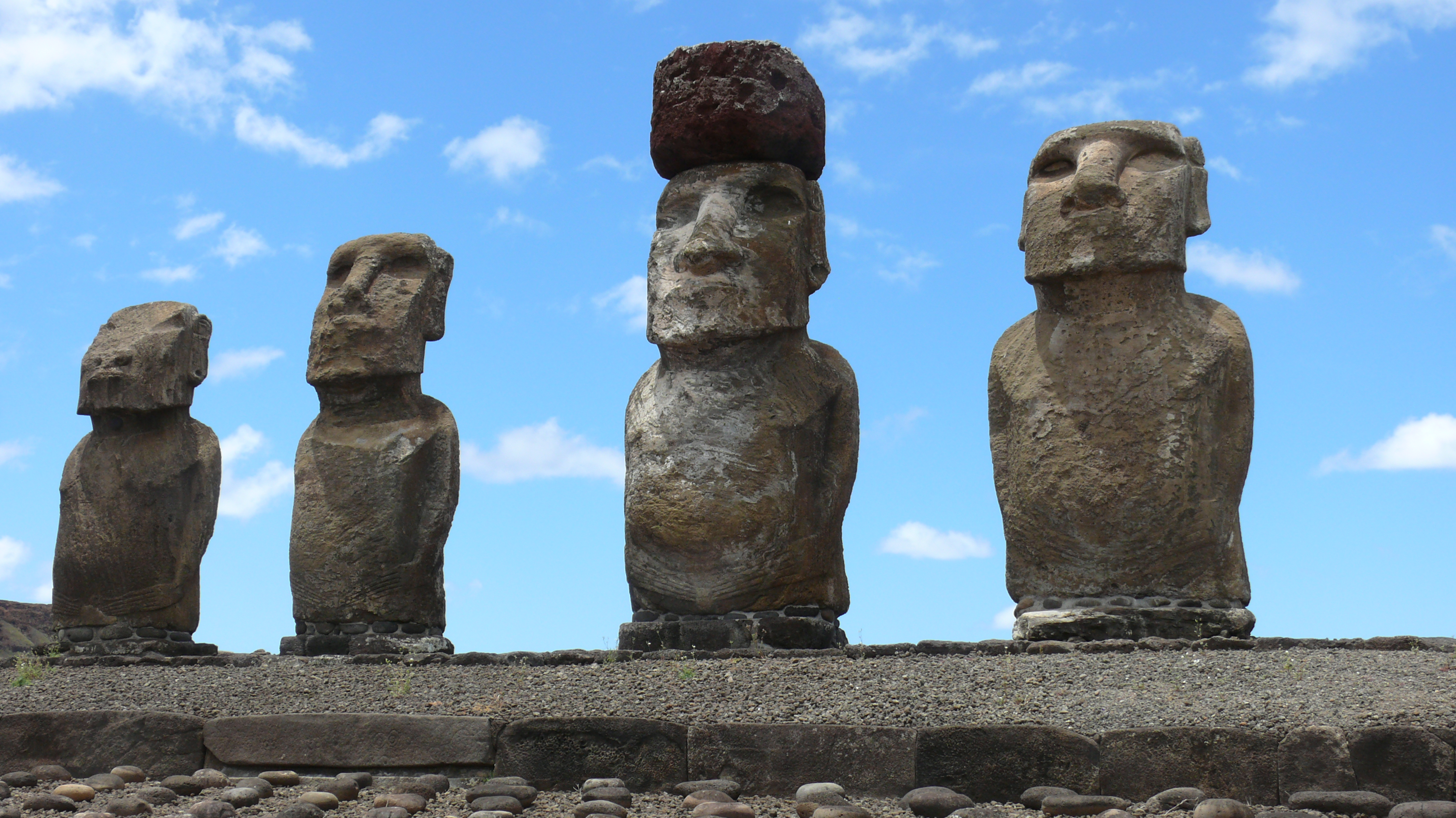 Moai statue, Tongariki Beach